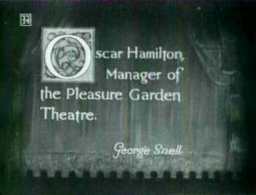 Intertitles from the Alfred Hitchcock movie "The Pleasure Garden" (1925)